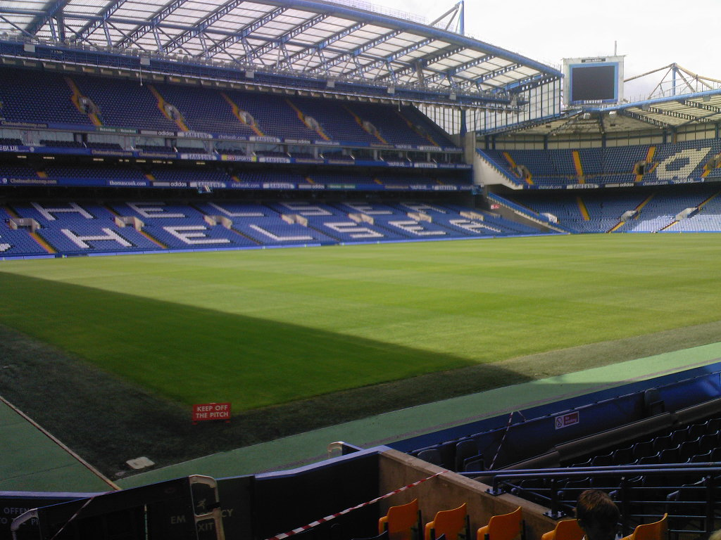 image of Chelsea FC stadium Stamford Bridge